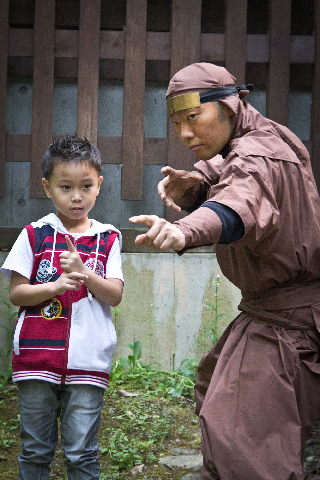 Ninja show at Iga Ninja Museum, Ueno, Japan